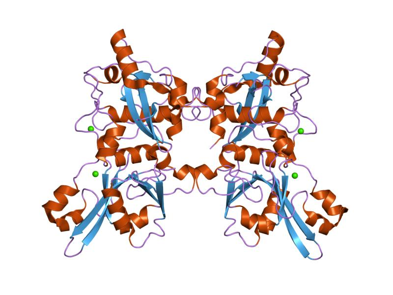 Cartoon representation of the molecular structure of protein registered with 1mdw code.